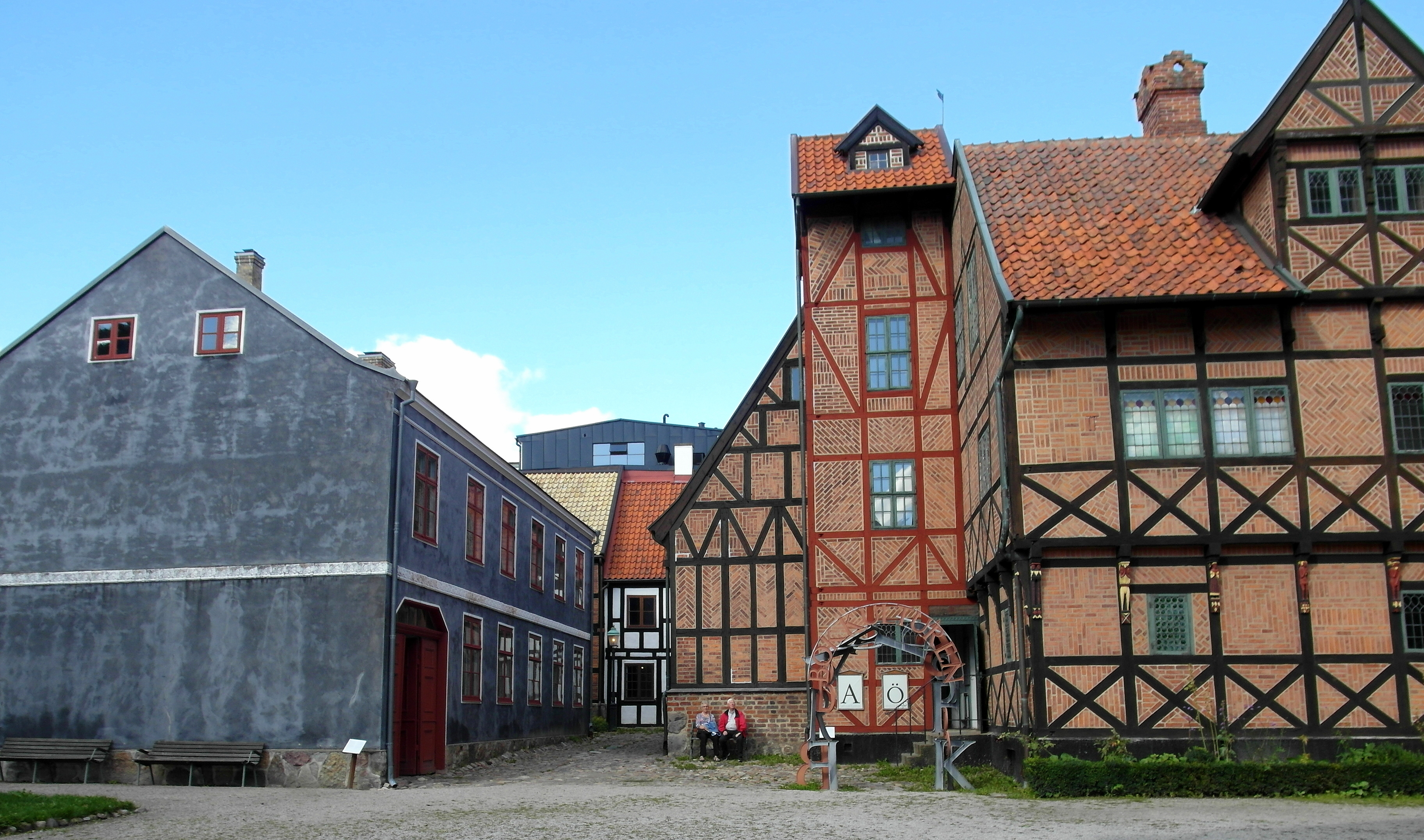 Kulturen open-air museum in Lund, Sweden